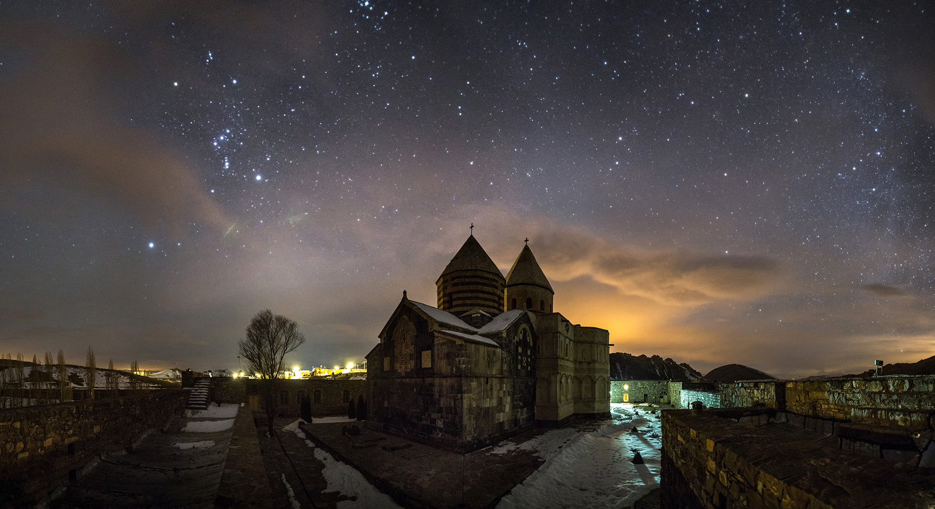 The Saint Thaddeus Monastry (Ghara Kelisa or the Black church) is an ancient Armenian monastery located in West Azerbaijan, Iran.